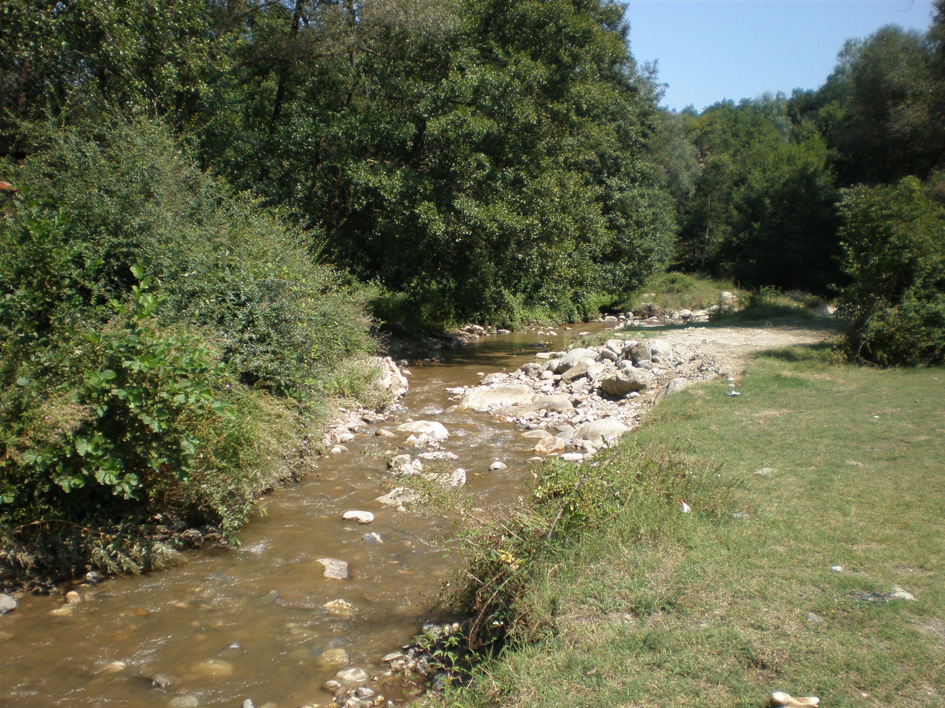 River Markova Reka near Marco's Monastery, Macedonia